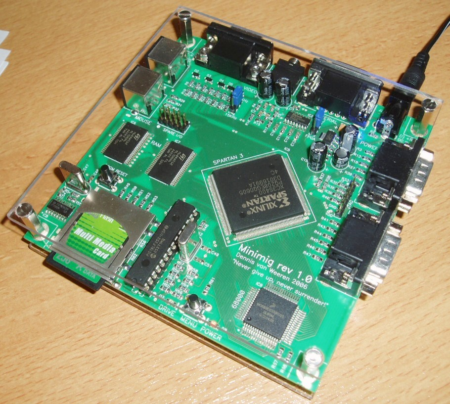 Author/Photographer Dennis van Weeren released the picture under "public domain". As documented at